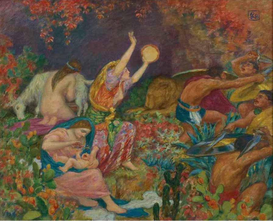 The Infant Zeus Oil on canvas, signed with monogram upper right, 64.5 x 80 cm